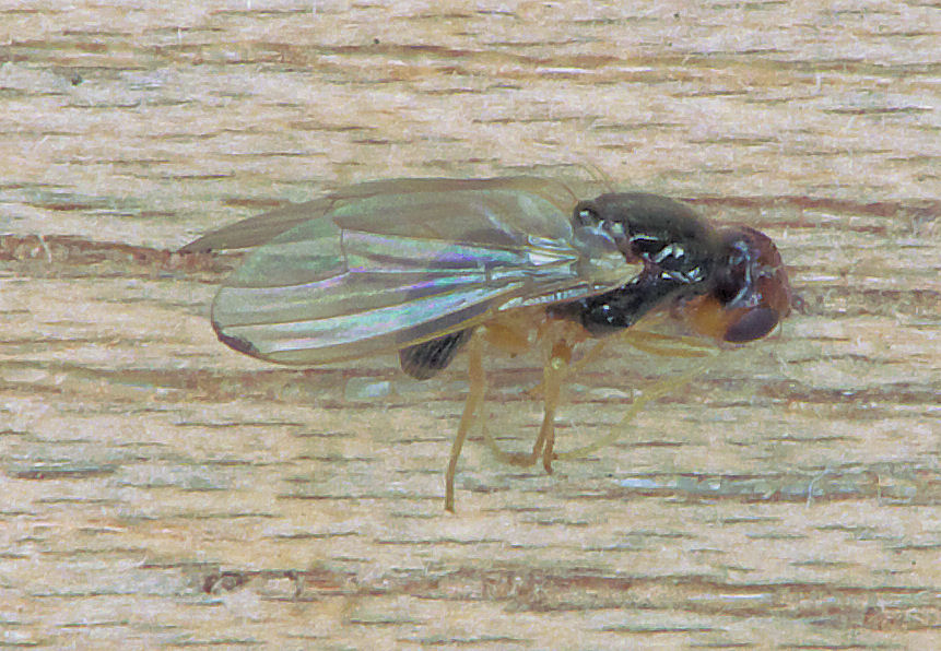 Chamaepsila rosae, 5-6 mm long